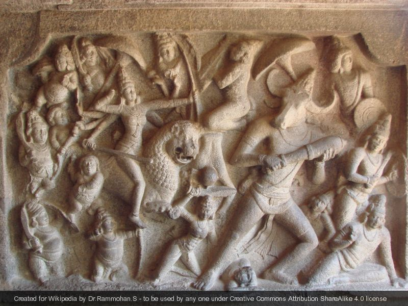 1 STONE SCULPTURE